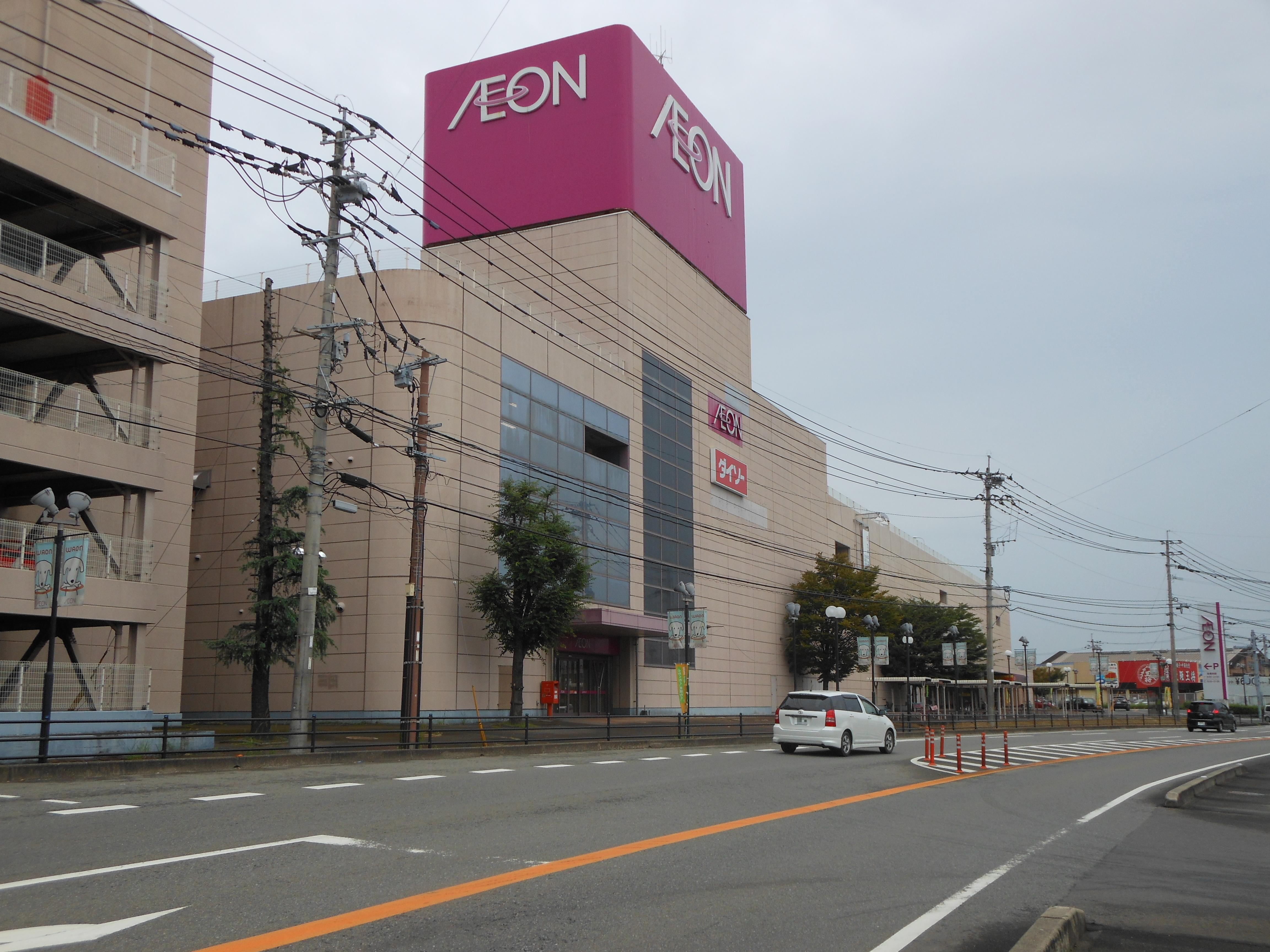 AEON Kamimine shopping center, in Kamimine town, Saga prefecture, Japan.